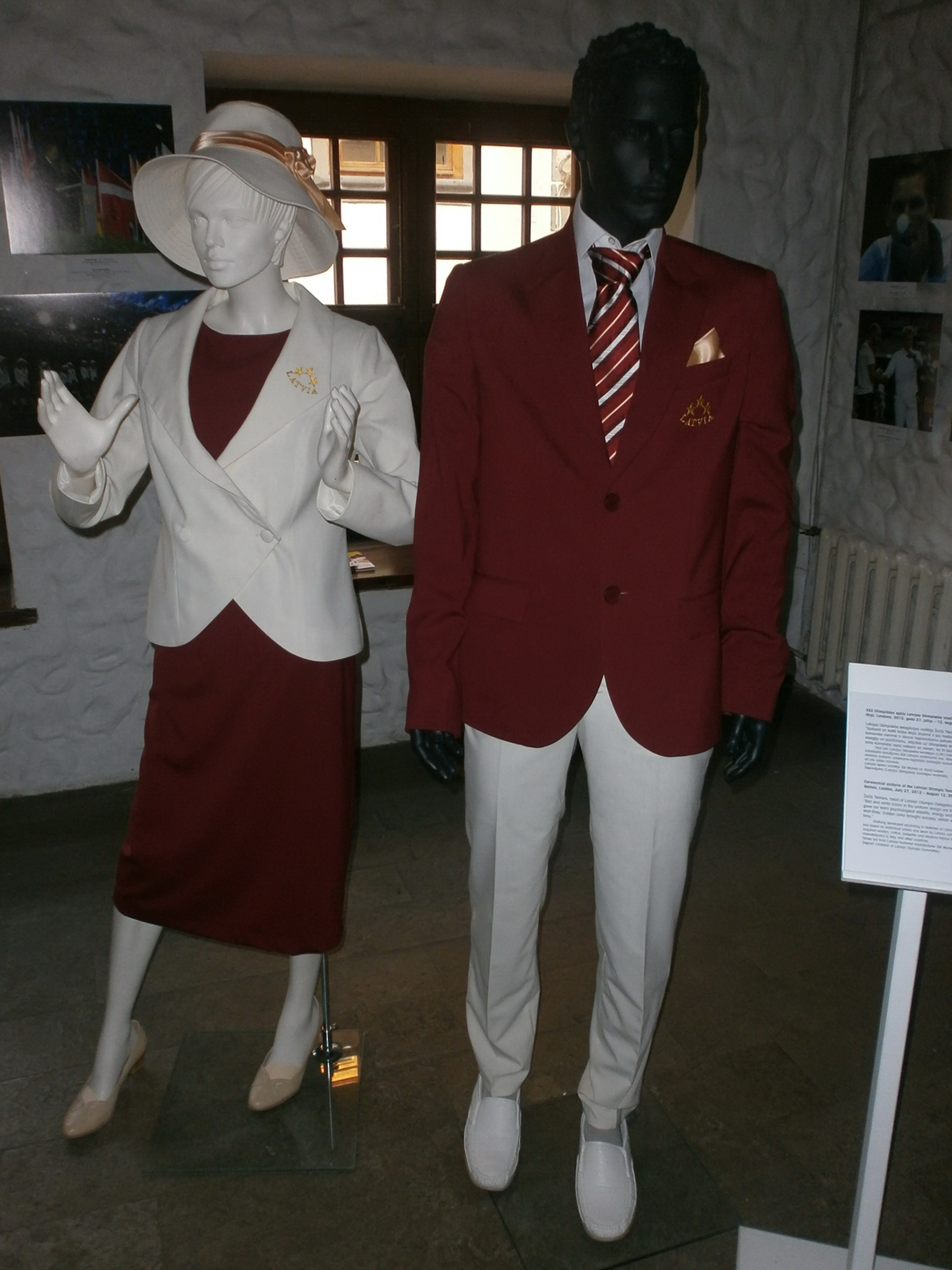 Latvia ceremonial uniform at the 2012 Summer Olympics